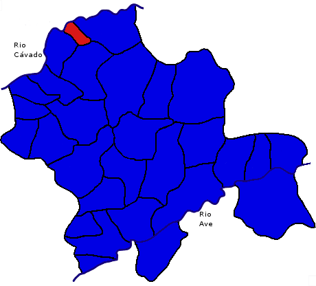 Map of Ajude in Povoa de Lanhoso, Portugal